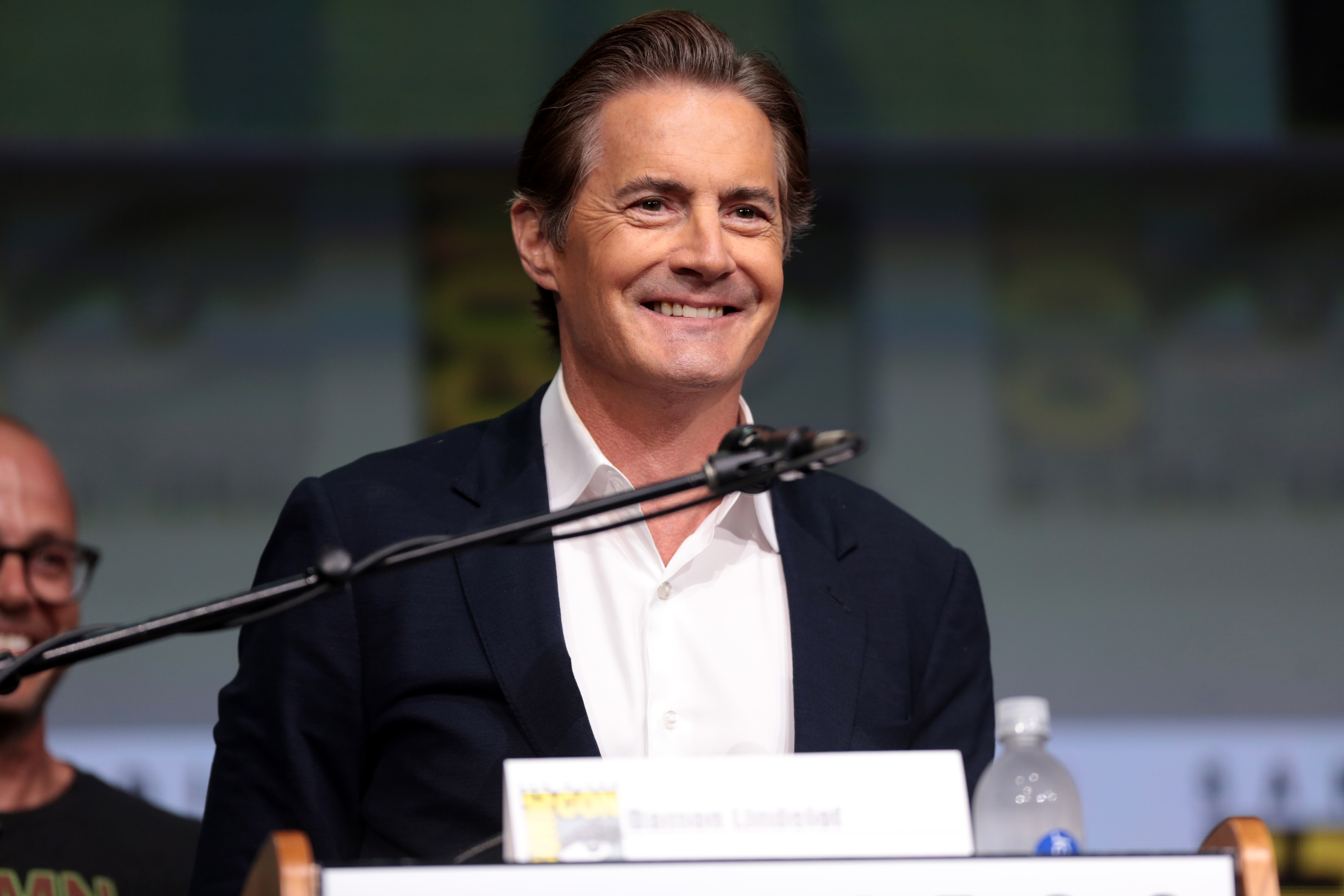 Kyle MacLachlan speaking at the 2017 San Diego Comic Con International, for "Twin Peaks", at the San Diego Convention Center in San Diego, California.